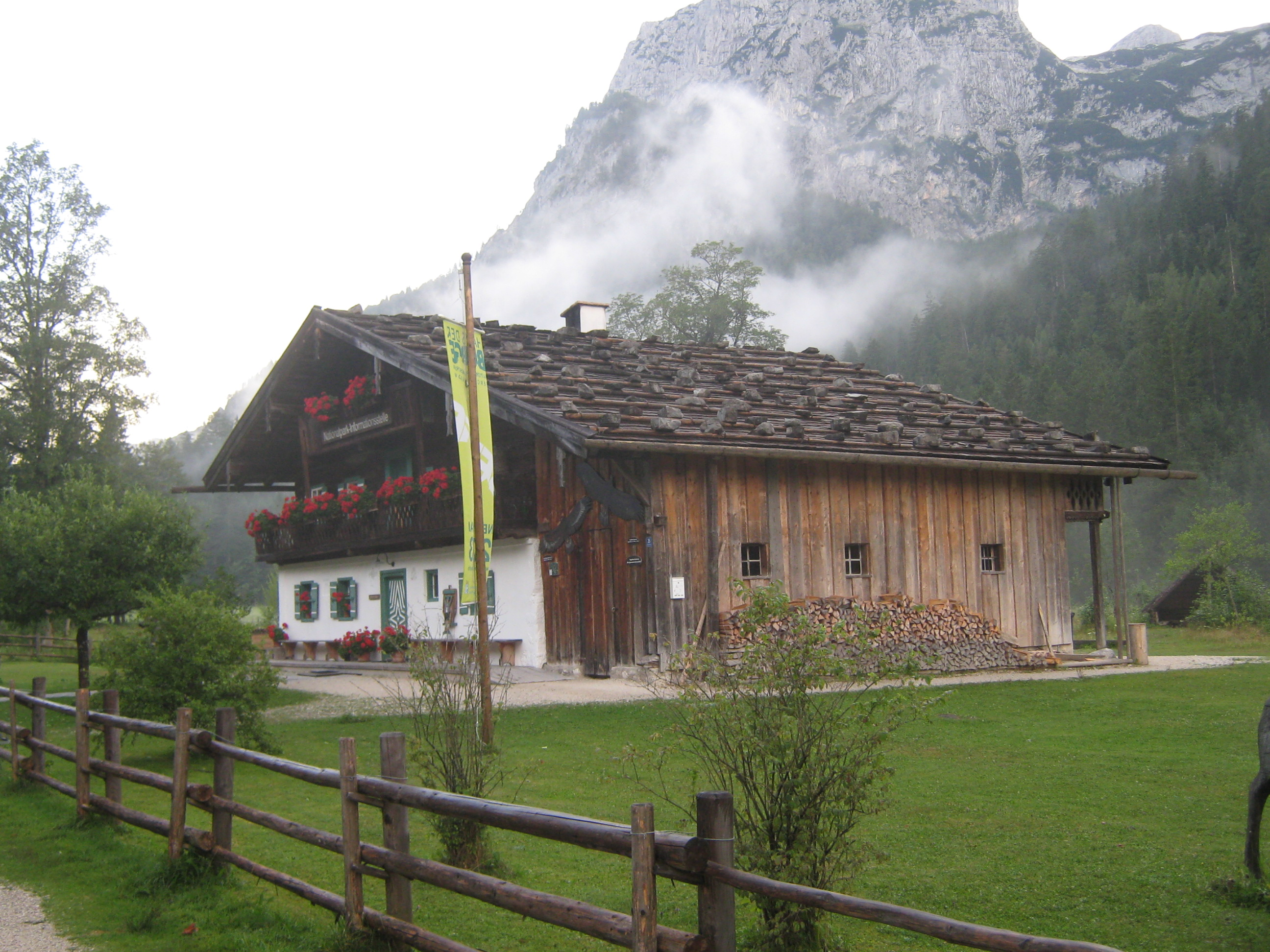 Klausbachhaus von der Hirschbichlstraße (Osten)